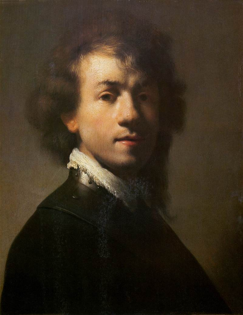 Portrait of Rembrandt with a gorget. Formerly attributed to Rembrandt. Now believed to be a copy from Rembrandt’s studio after a self-portrait currently in the Germanisches Nationalmuseum, Nuremberg (see File:Rembrandt van Rijn 184.jpg). In 1991, Claus Grimm raised the possibility that the Germanisches Nationalmuseum version was the original and the Mauritshuis version a copy, basing his arguments on stylistic grounds, including the more refined finish of the Mauritshuis version, uncharacteristic of Rembrandt's loose handling. Finally, in 1998, infrared reflectography determined an understudy in the Mauritshuis version, which is known to be wholly uncharacteristic of Rembrandt's mode of working. Consequently most authors now accept the Germanisches Nationalmuseum version to be the original. Van der Vinde suggest the Maurithuis version came from Rembrandt's first pupil Gerrit Dou (p. 68).